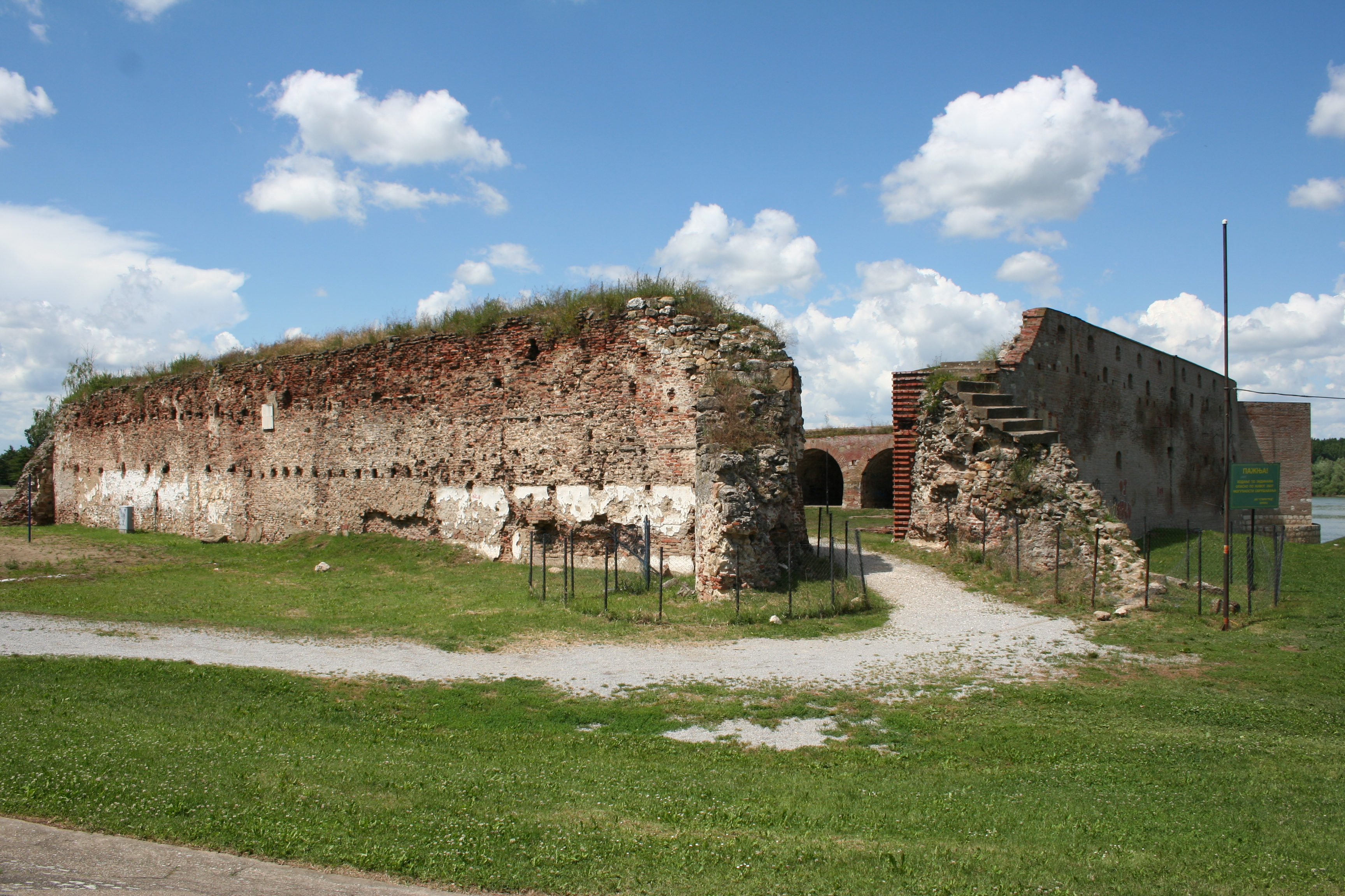 Šabac Fortress